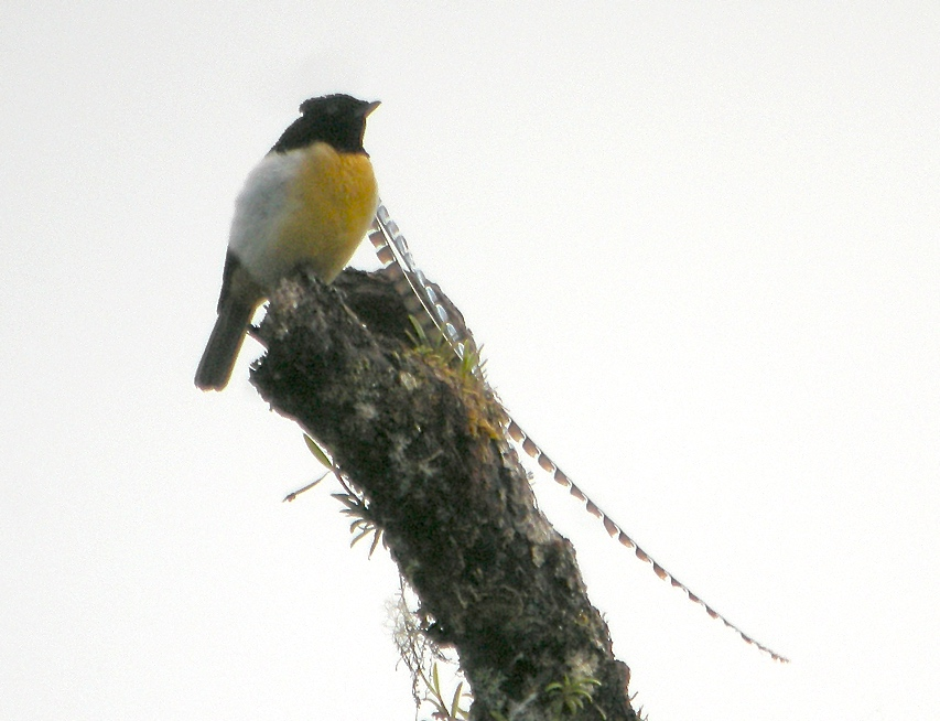 A male King of Saxony Bird of Paradise in Papua New Guinea.